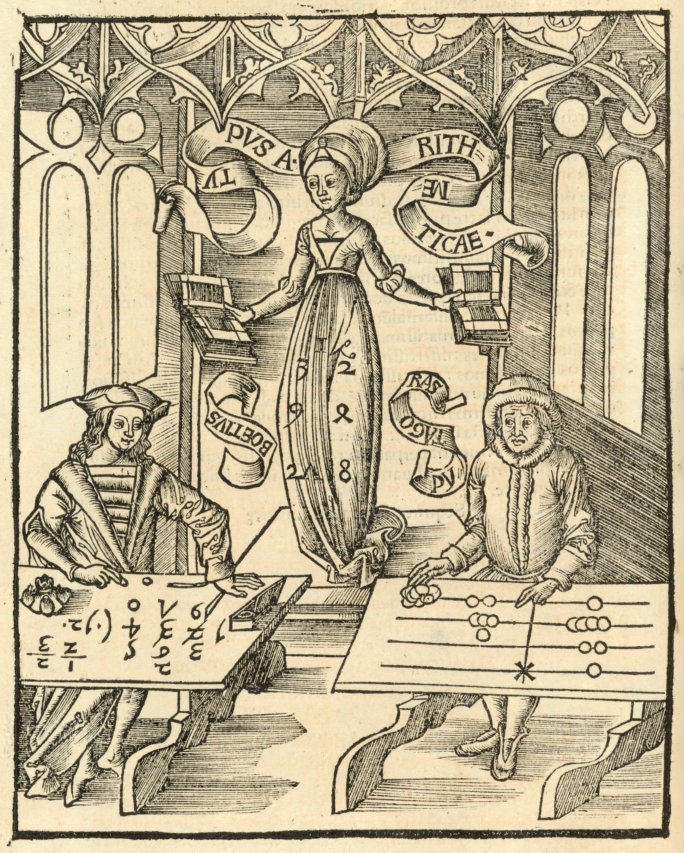 Illustration from Margarita philosophica, 1503, by Gregor Reisch (d. 1525). Typ 520.03.736, Houghton Library, Harvard University